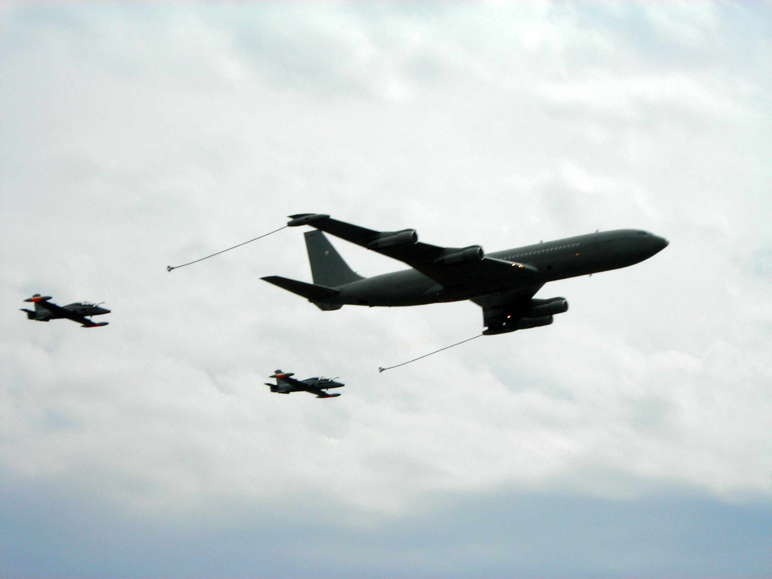 Picture taken during "Giornata Azzurra" 2007 (Italian Air Force airshow) at Pratica di Mare AFB, Italy. Boeing 707 refuel two MB-339 in a demonstration. All aircraft are of Italian Air Force